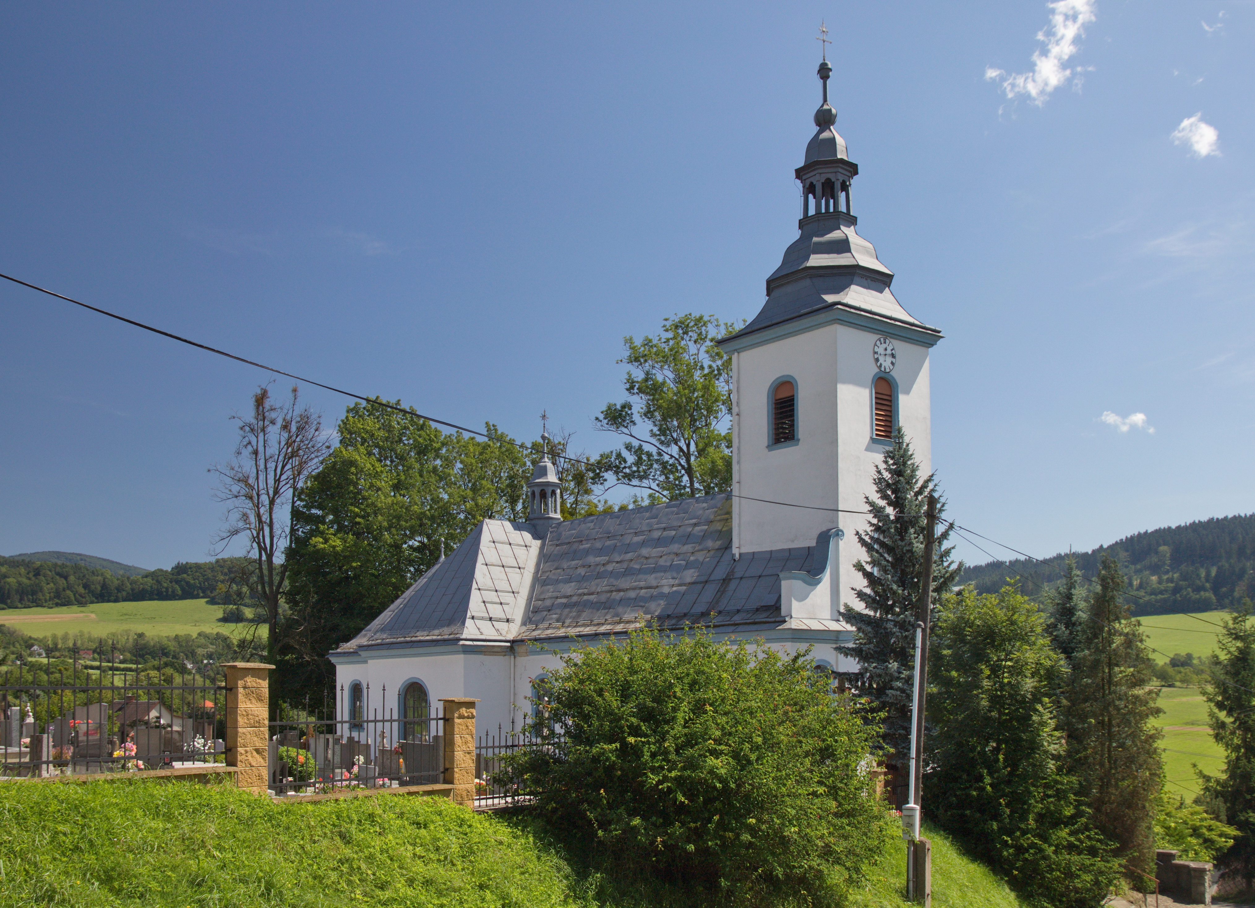 Church of Saint Catherine, Vendryně. Moravian-Silesian Region, Czech Republic.